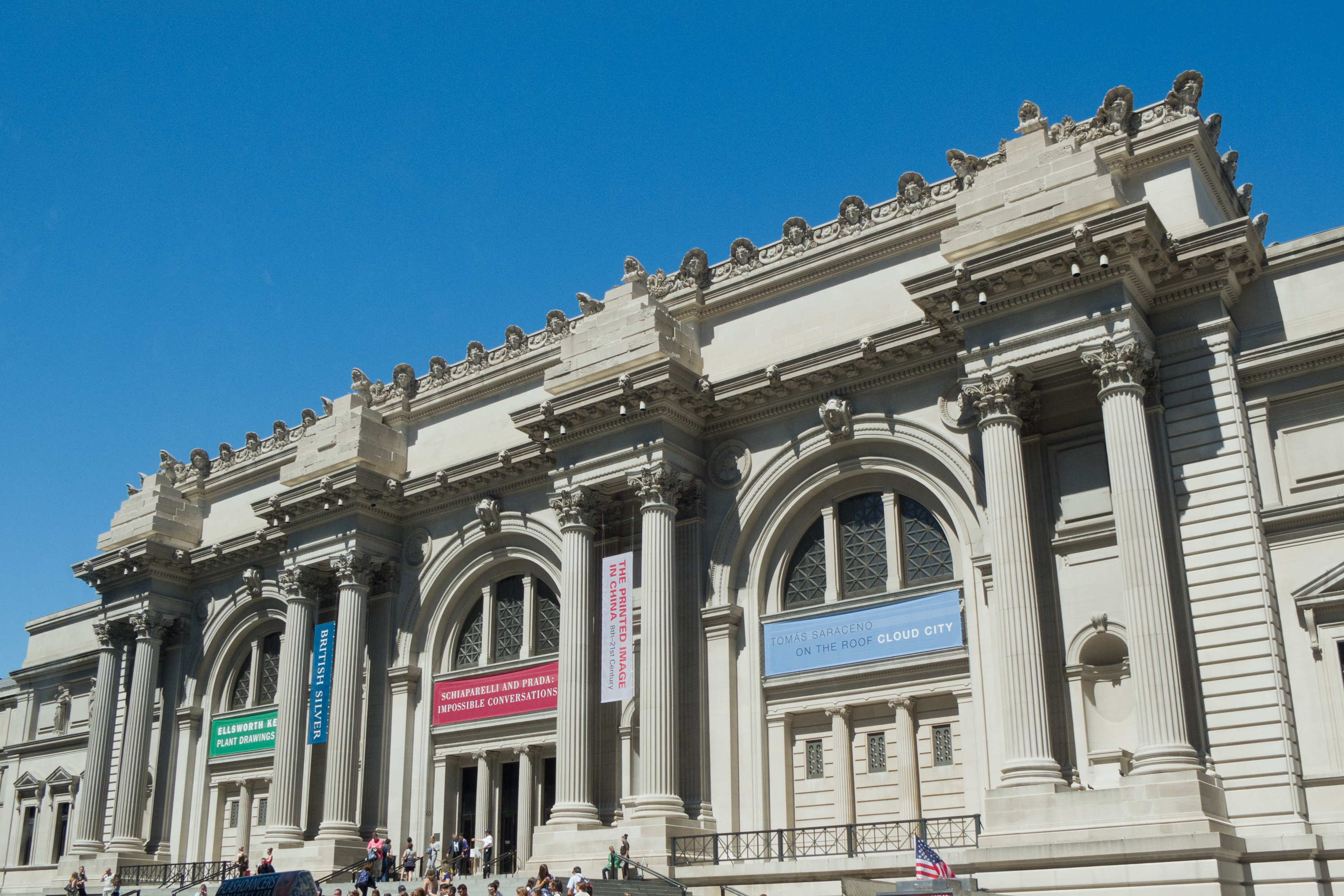 Metropolitan Museum of Art, New York, United States.